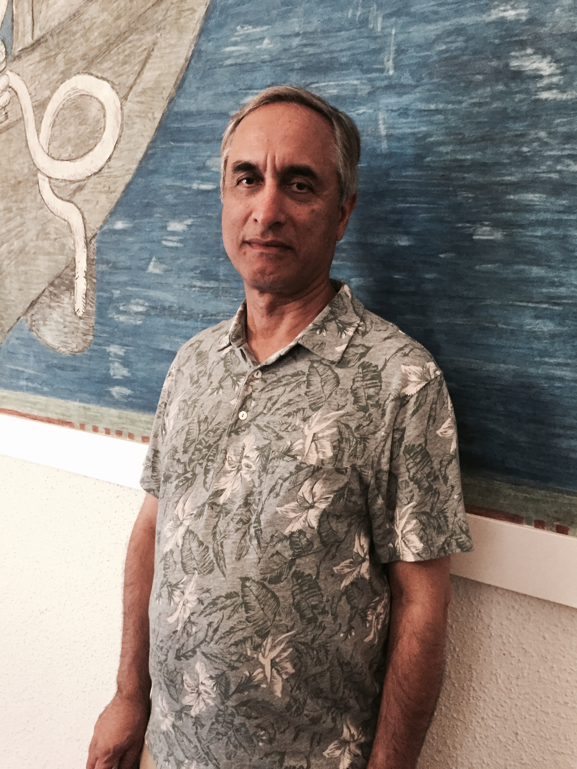 Photograph of Subhash Kak at the Single Photon Workshop held at the University of Geneva, July 2015.